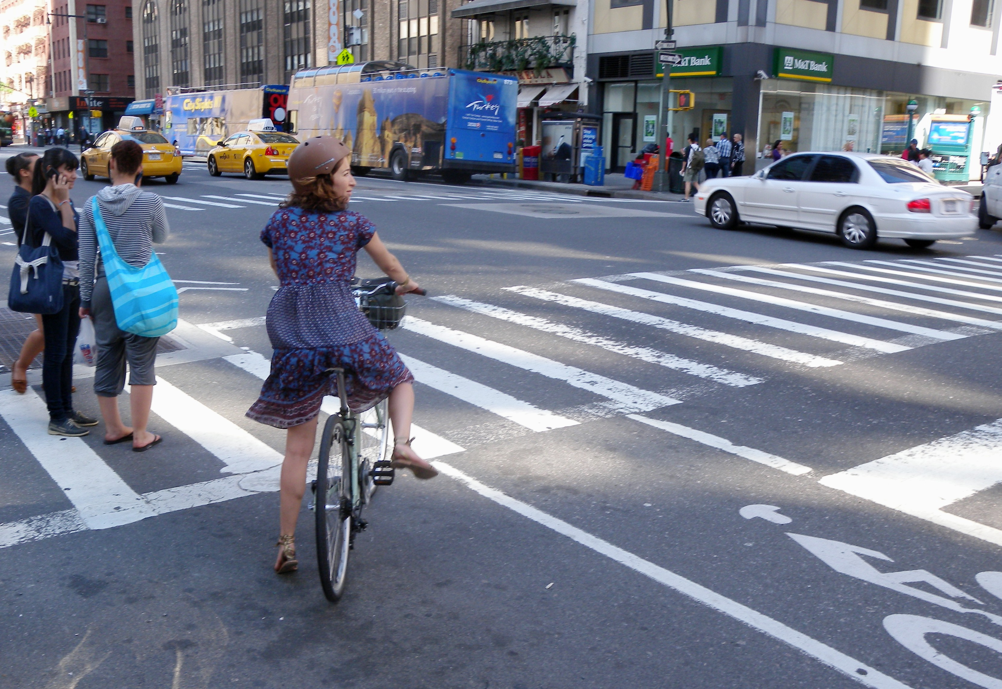 Looking northeast as lady biker in blue dress waits to turn right from 8th Avenue and go up 50th Street.